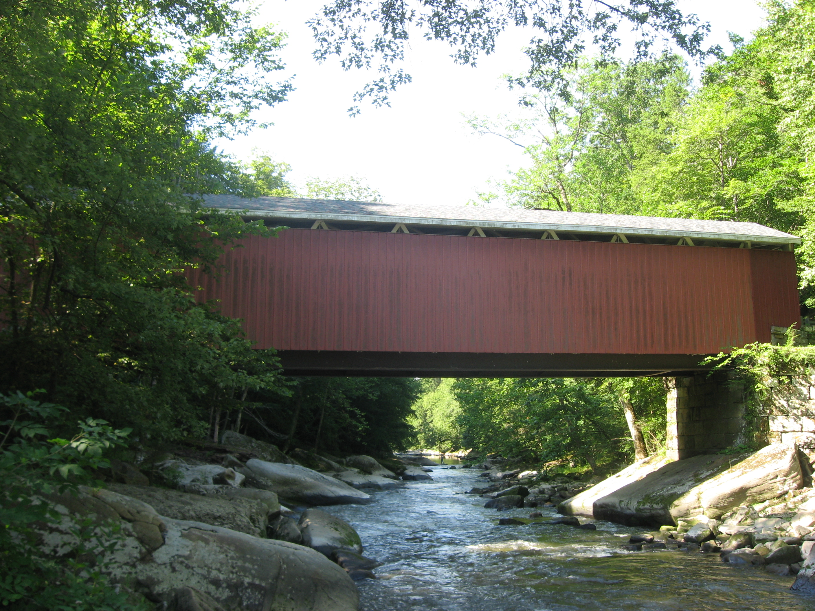 Northern side of McConnell's Mill Covered Bridge at McConnells Mill State Park, located in far eastern Slippery Rock Township, Lawrence County, Pennsylvania, United States. Built in 1874, the bridge is listed on the National Register of Historic Places. Picture taken from rocks below the eastern end of the bridge.